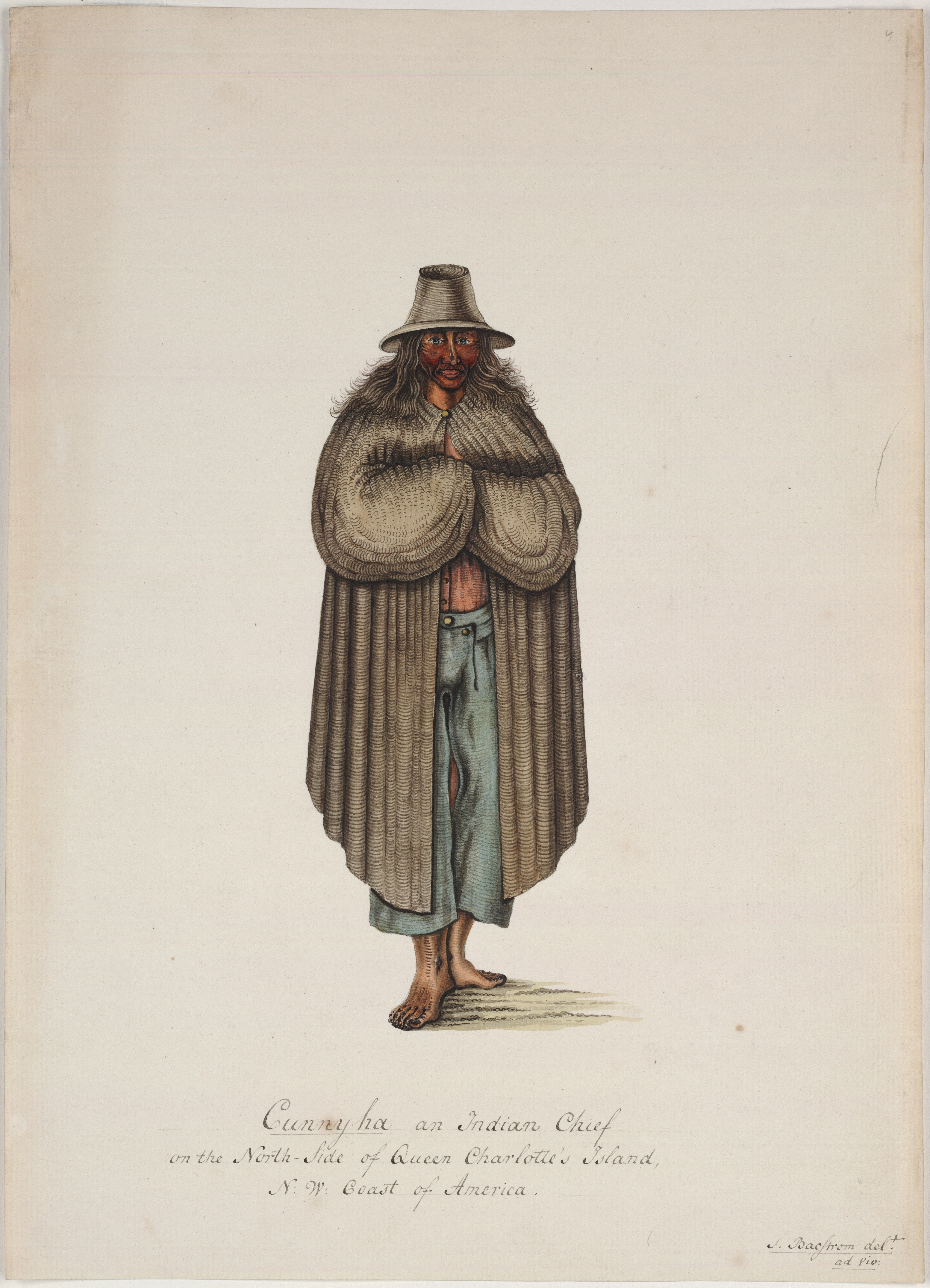 Drawing of Haida noble showing otter cloak and sailor's trousers, circa 1793